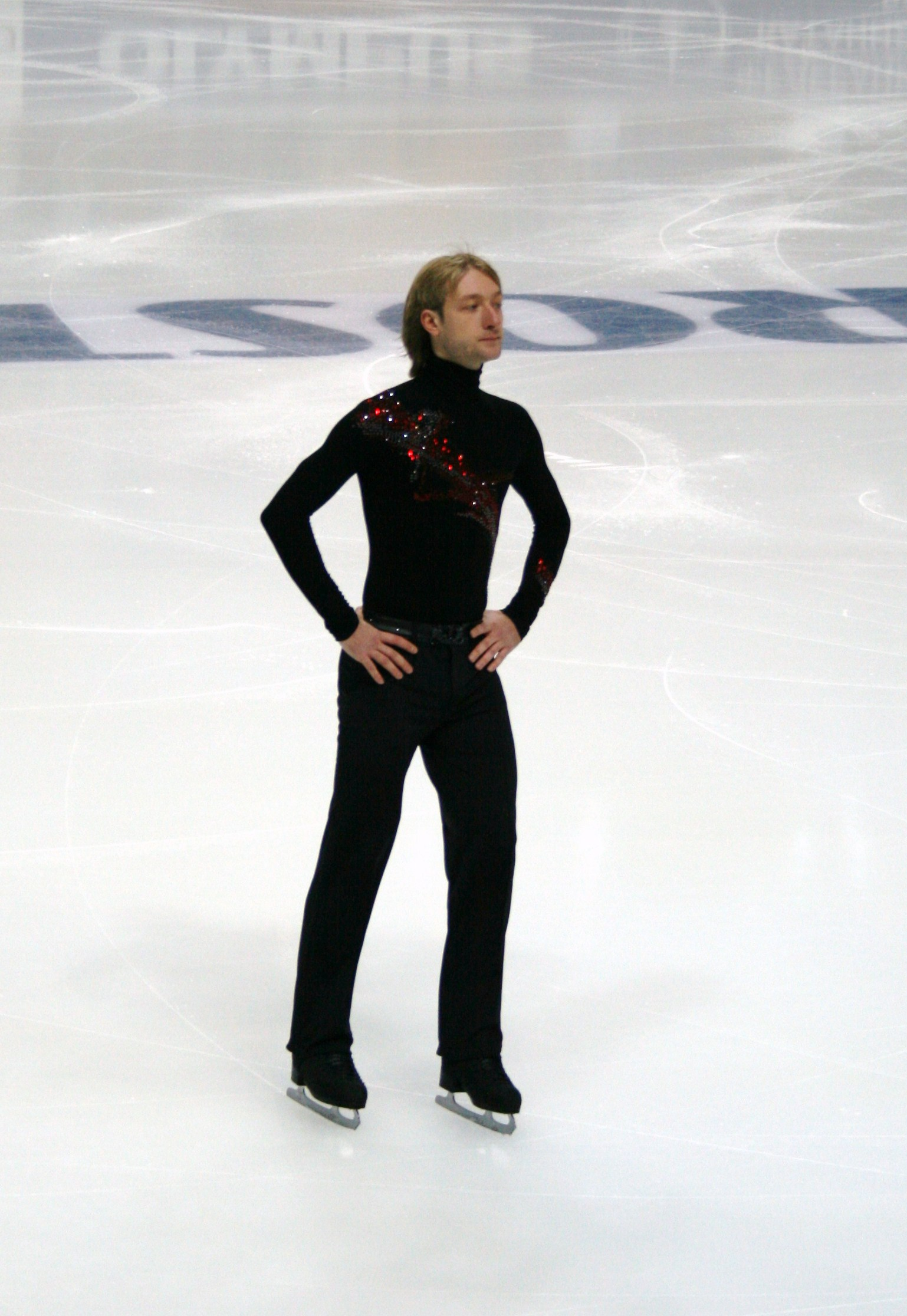 Evgeni Plushenko at the 2009 Rostelecom Cup